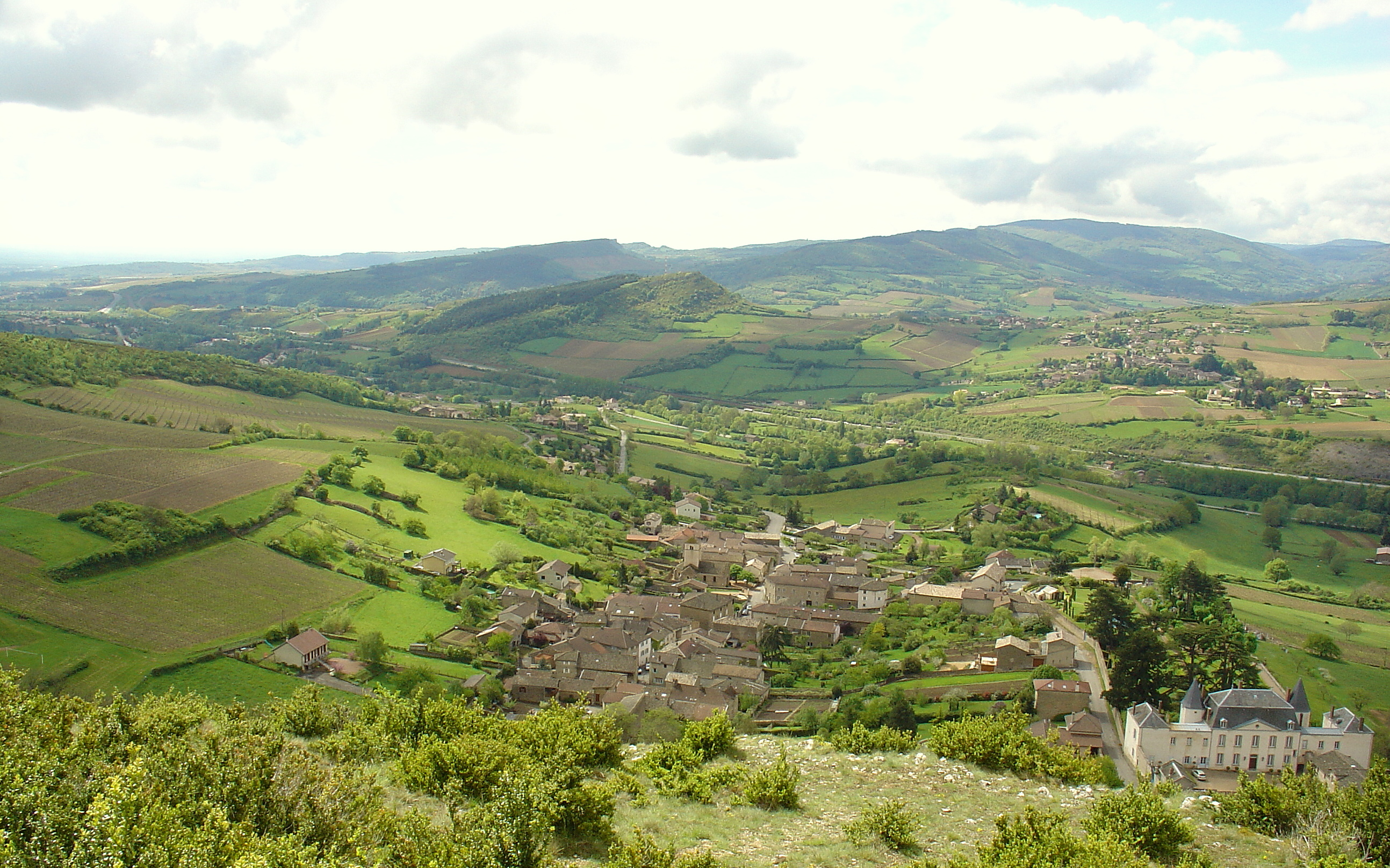 Berzé-la-Ville, Saône et Loire (71), France seen from la Roche Coche. At the 2nd level, the village of Milly-Lamartine in which the french poet and politicien Alphonse de Lamartine grew. At the back side, la Roche de Vergisson